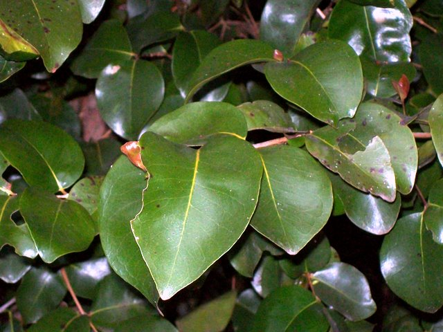 Shatterwood growing next to Thunderbolts Way, near Gloucester, NSW